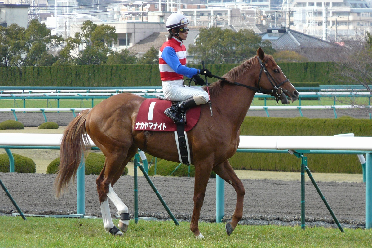 Nakayama-Knight20120401